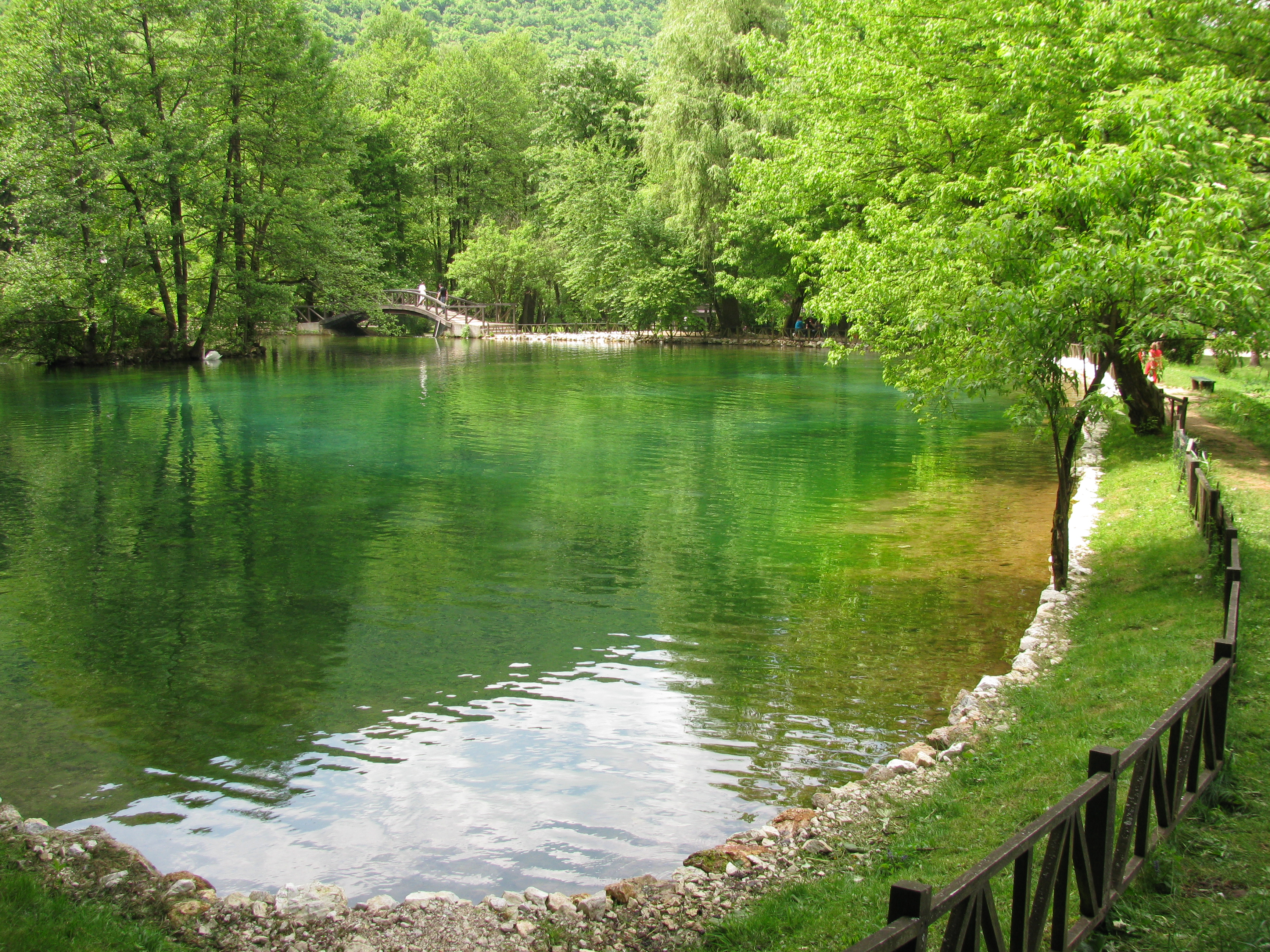 Sarajevo park in the municipality of Ilidža on the river Bosna.